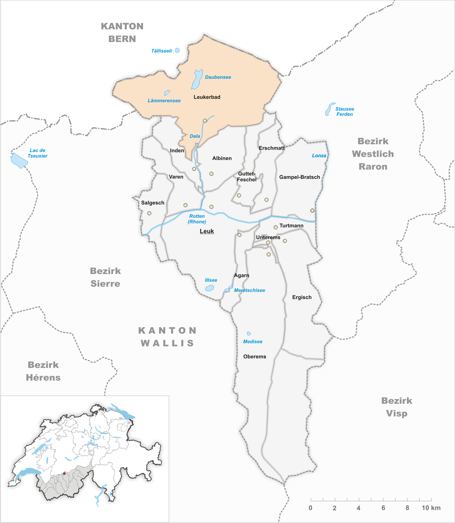 Municipality Leukerbad